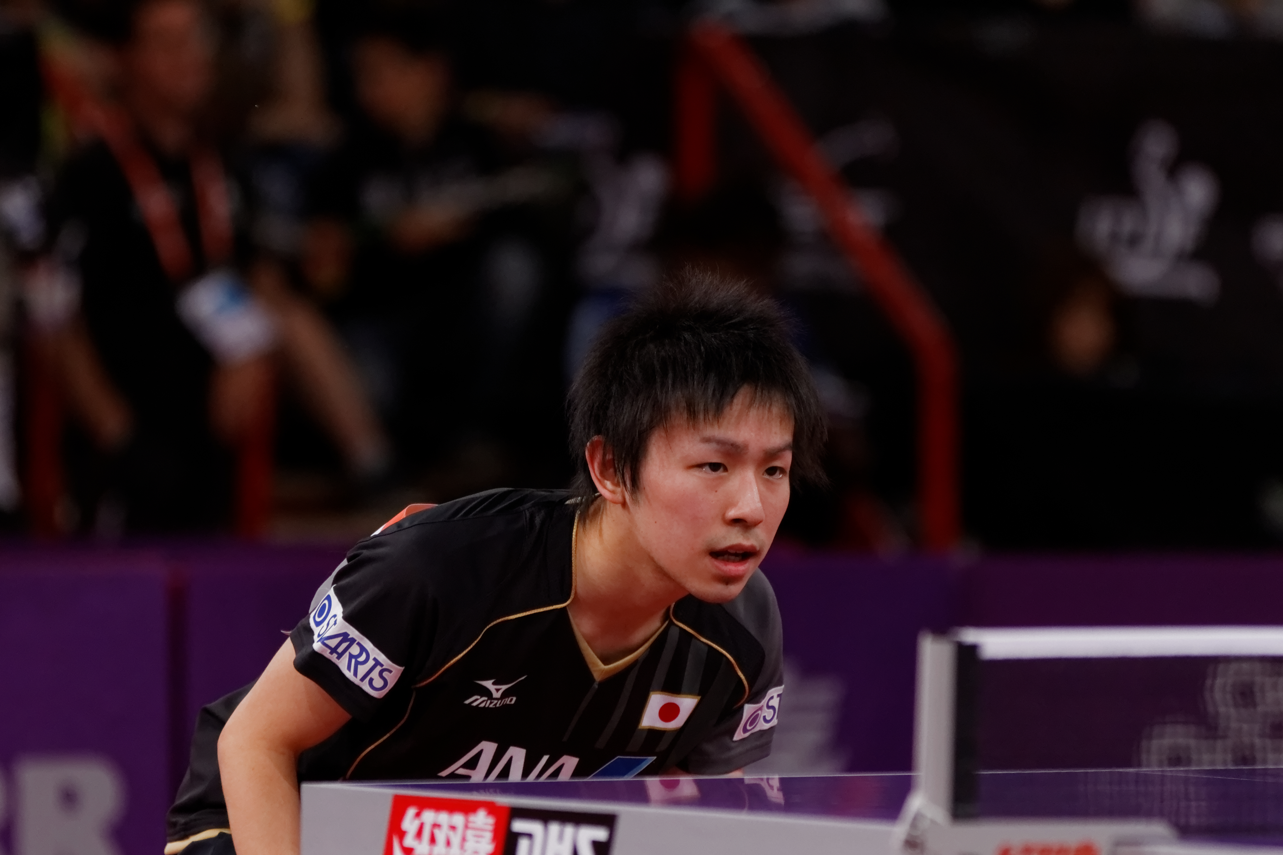 2013 World Table Tennis Championships, Paris. Men's Singles Round 4. Ma Long vs Koki Niwa.